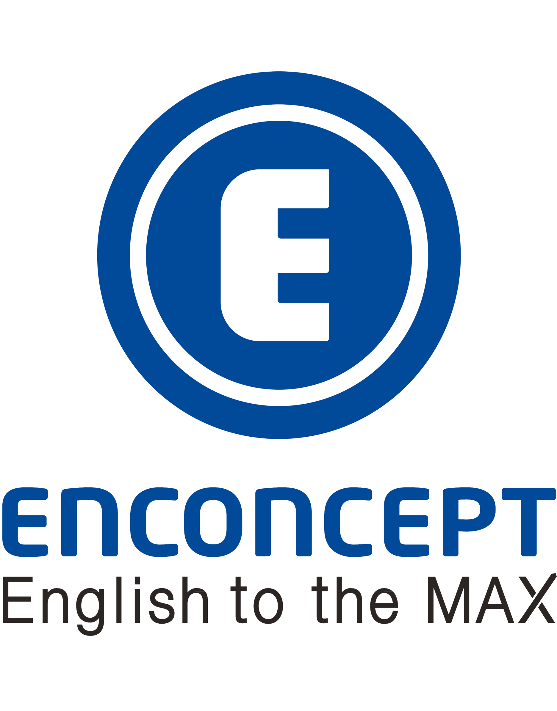 Logo of Enconcept school